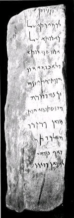 Aramaic inscription of the 4th century BC, found in Sirkap, Paksitan